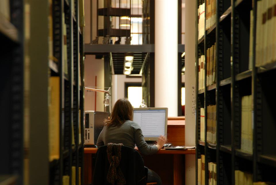 user of the libraries at the University of Florence, Italy